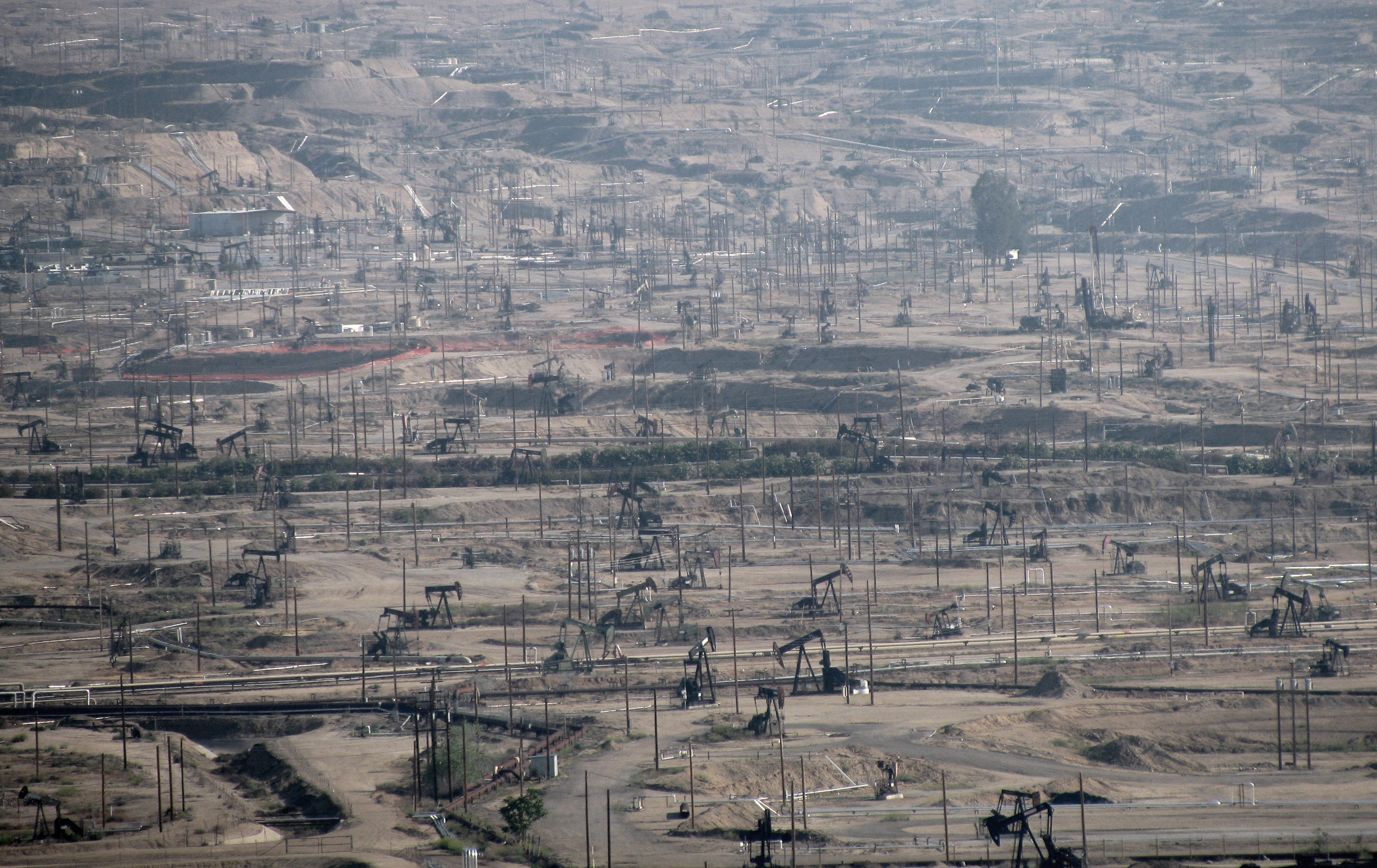 Kern River Oil Field, from Panorama Park, Bakersfield, California; photo by User:Antandrus, May 3, 2009; GFDL